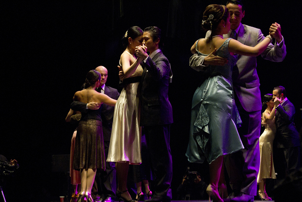 Tango Dance Championship 2011. Tango of sala, category. Buenos Aires. (Foto: Estrella Herrera)